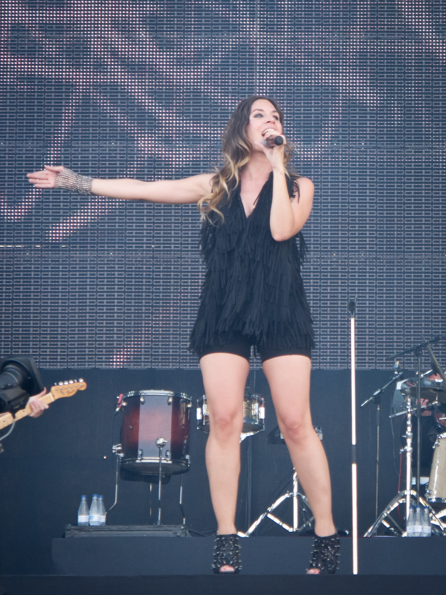 La oreja de Van Gogh in Rock in Rio Madrid 2012.